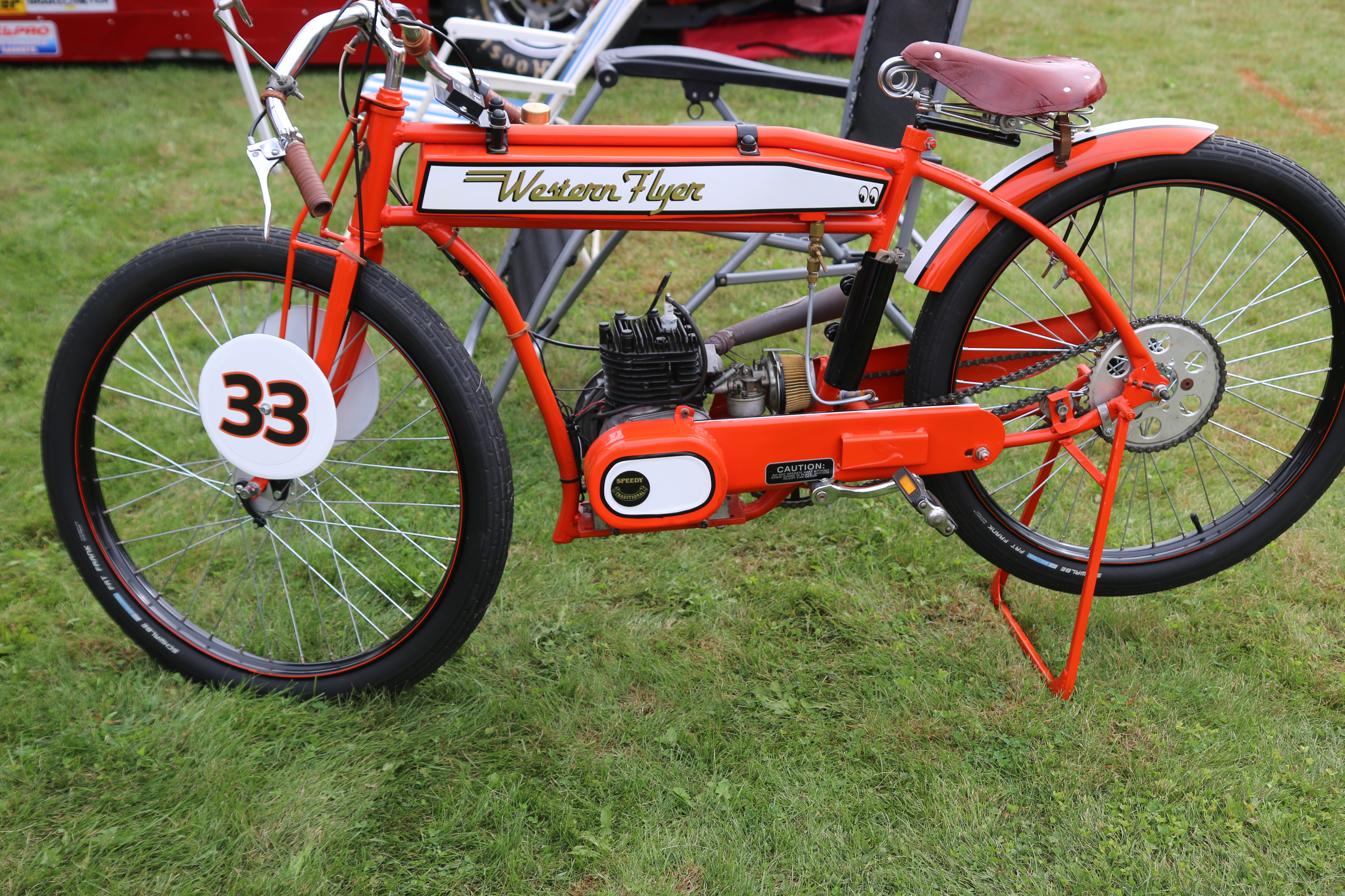 an antique Western Flyer bicycle converted to a motor cycle on display at the Freedom Area Historical Society exhibit “The Evolution of the Race Car”